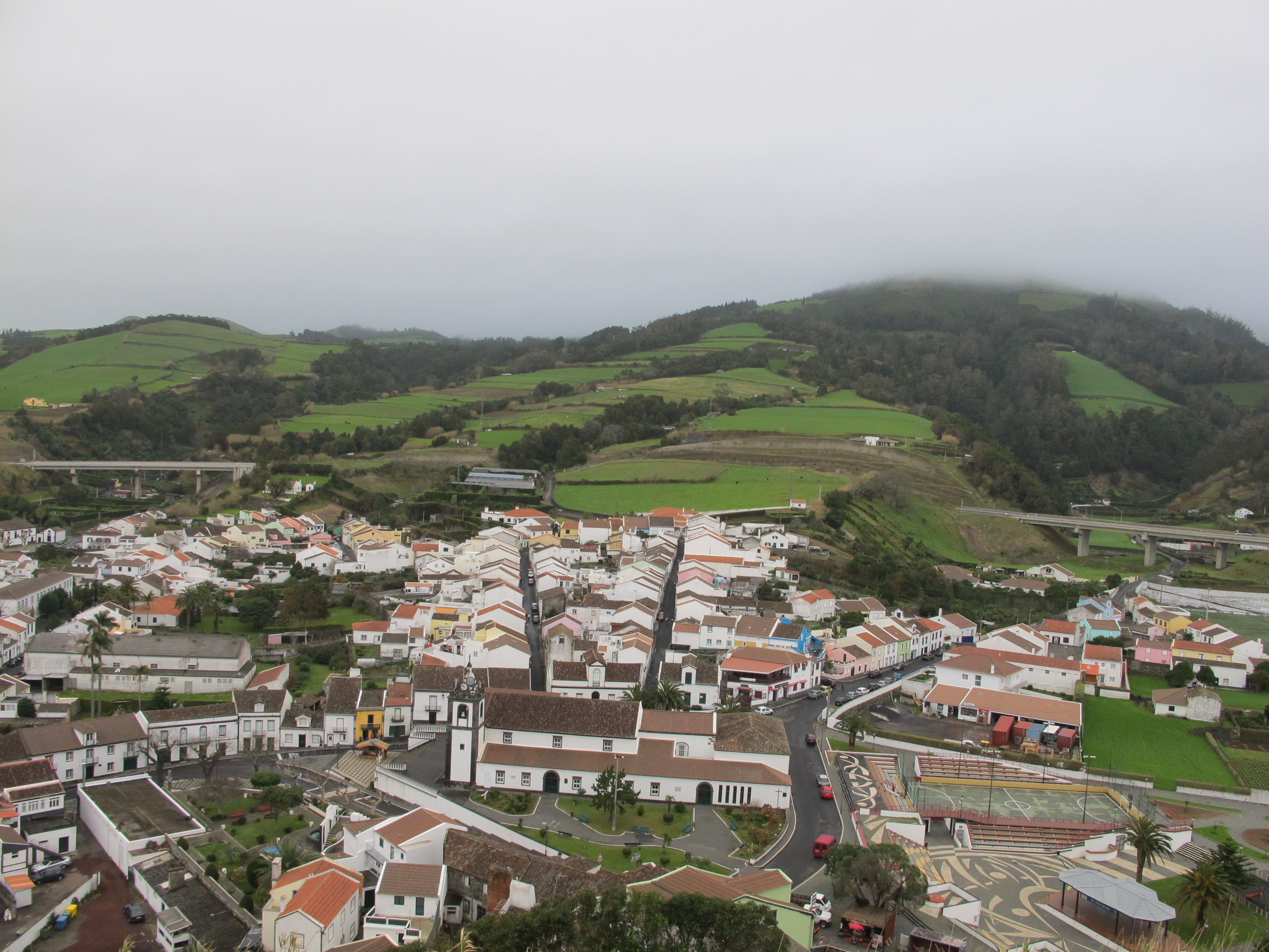 View of Agua de Pau, Azores 2016